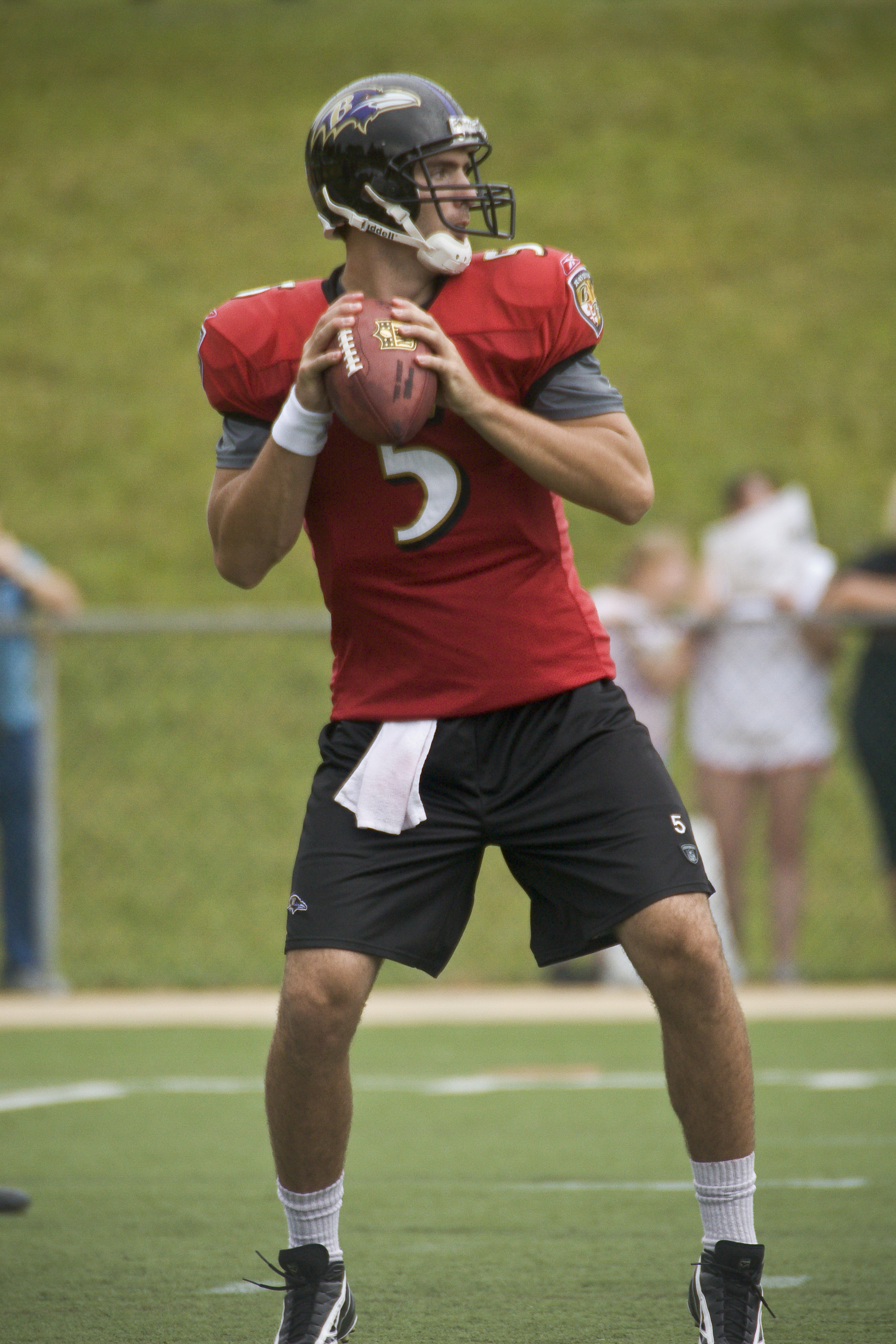 Rookie # 5 Joe Flacco in Ravens Training Camp July 23rd